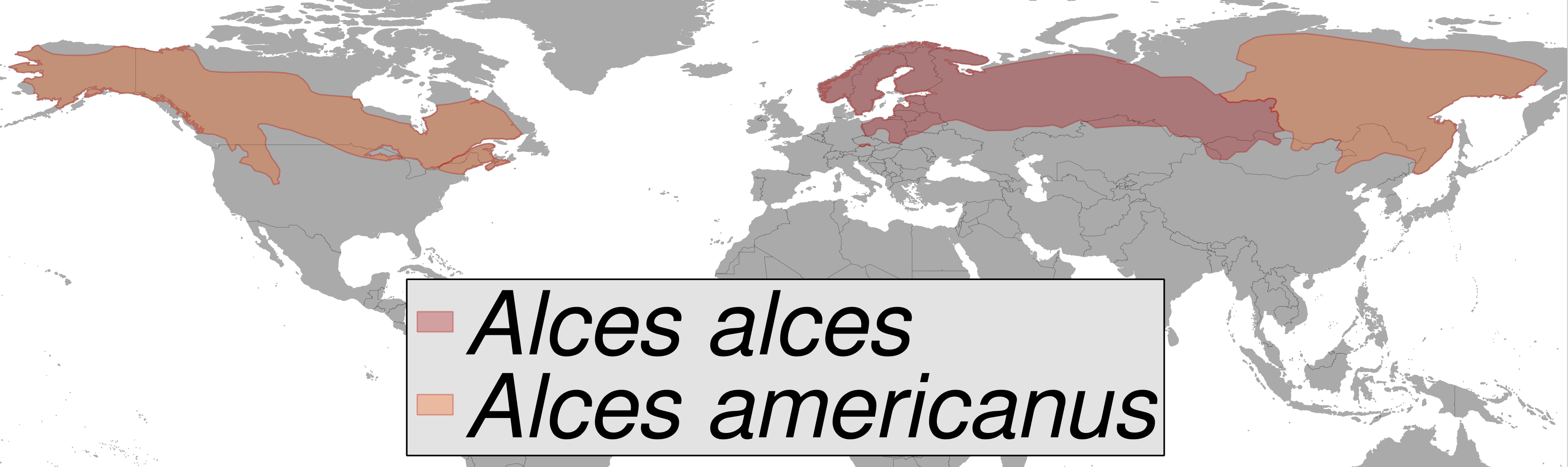 geographic distribution of Alces alces and Alces americanus